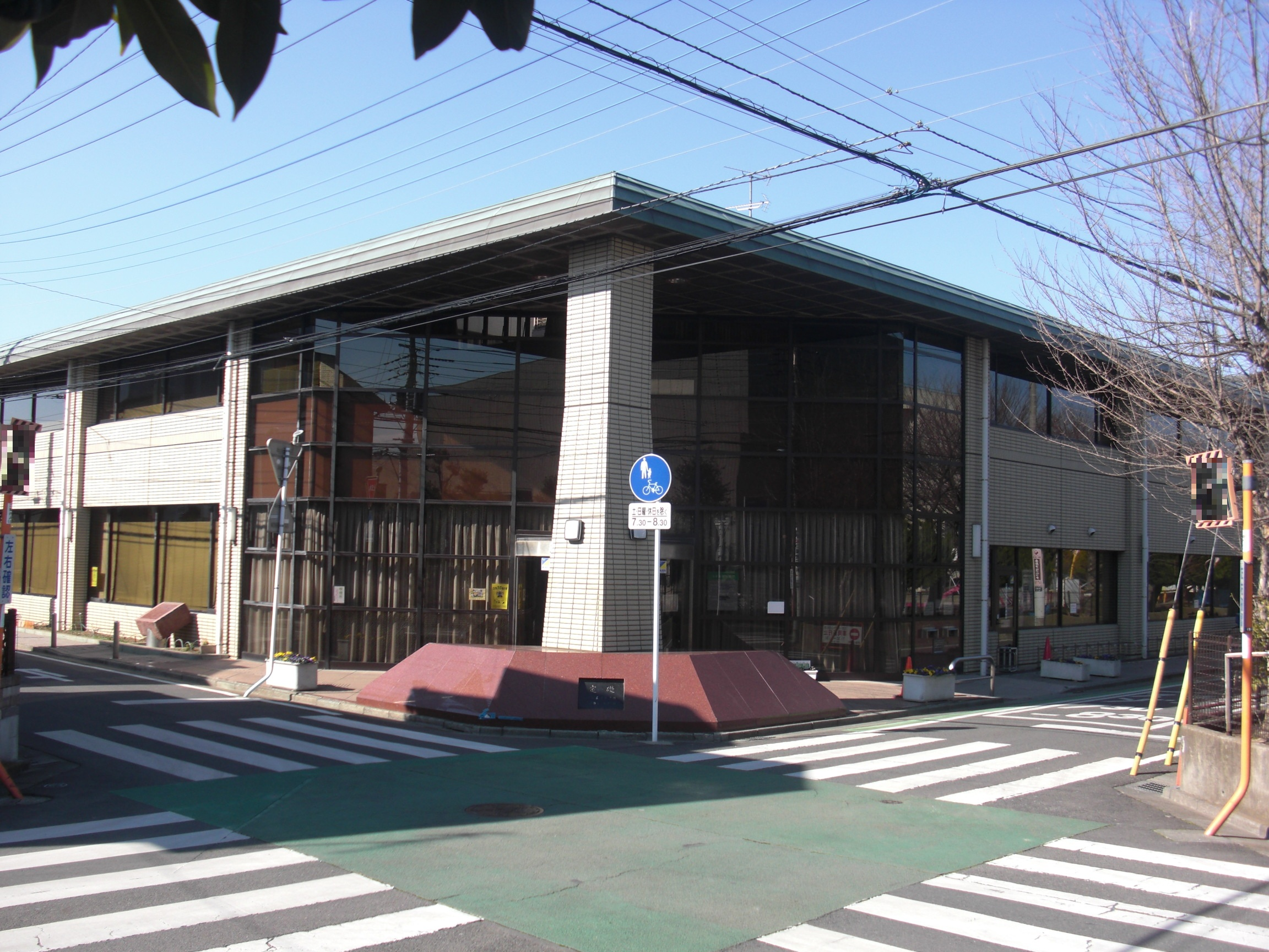 This is the Misato city Waseda Library in Misato city, Saitama, Japan.